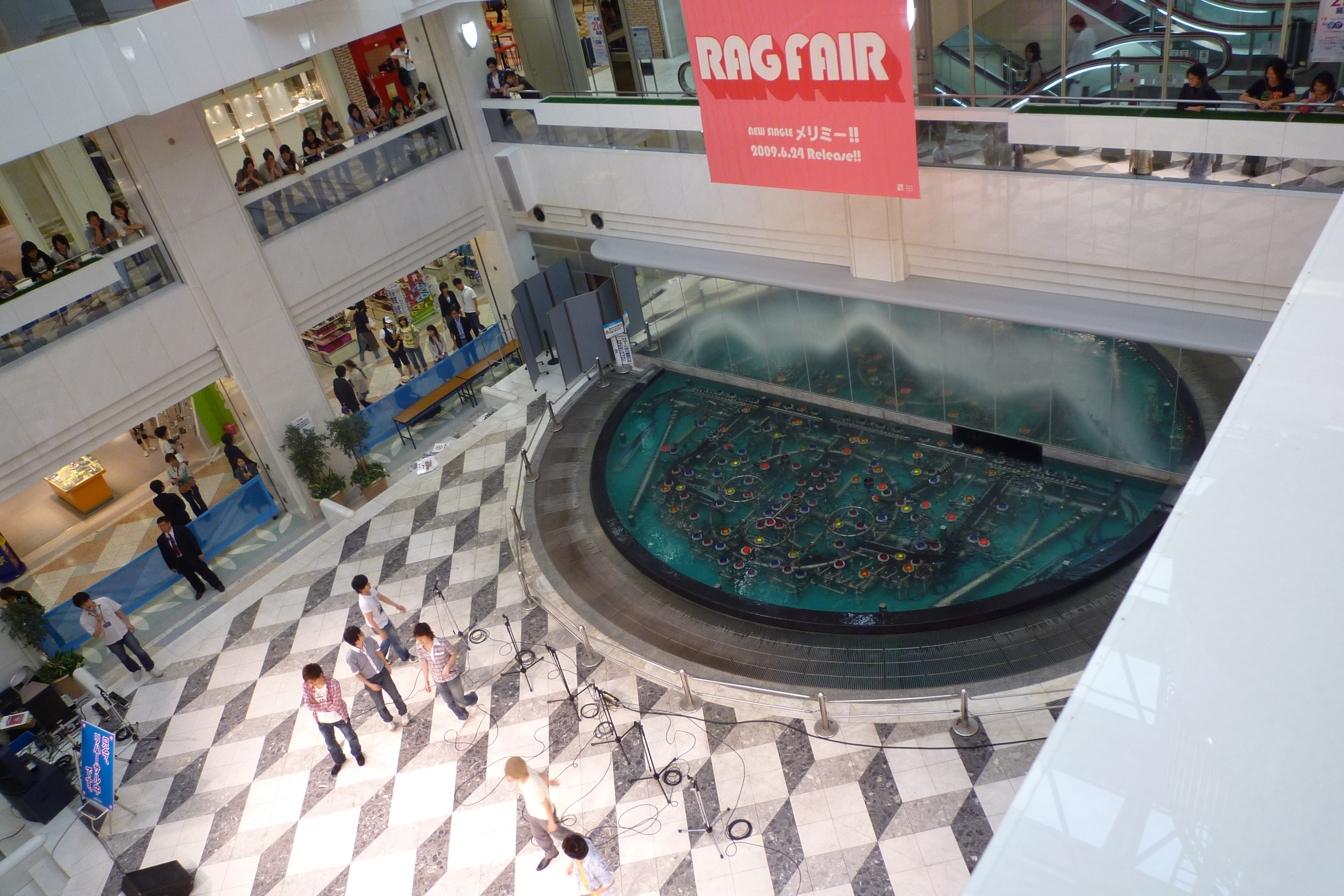 The j-pop male a cappella band Rag Fair (ラグフェアー) gets ready to perform at Sunshine City in Ikebukuro.